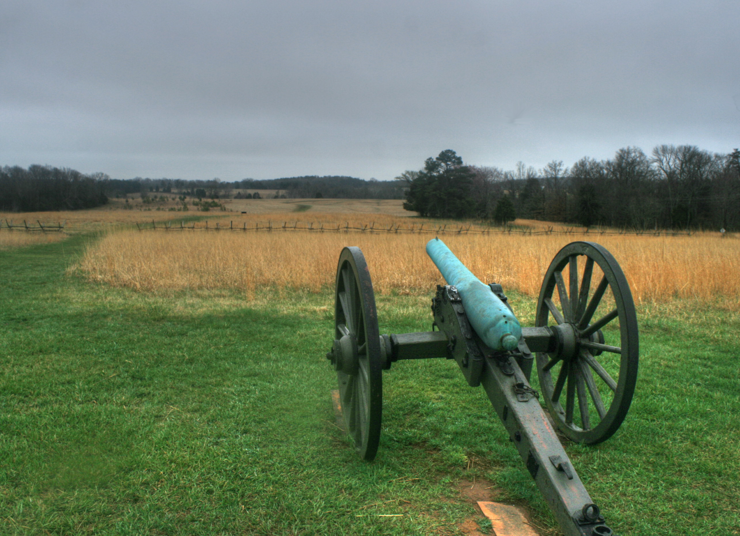 Manassas, 13-pounder James Rifled Gun